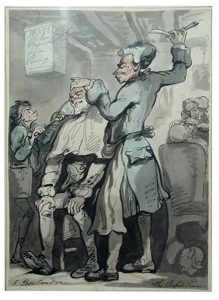 Watercolor by Thomas Rowlandson